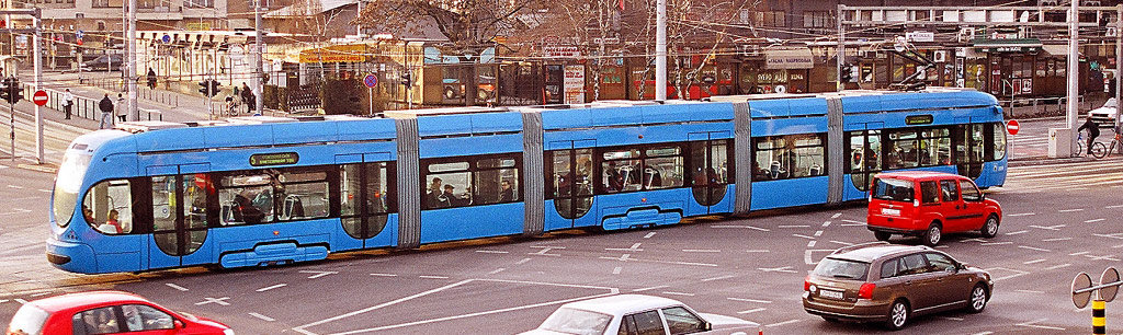 TMK 2200 in Zagreb, Croatia - Built by CROTRAM consortium..